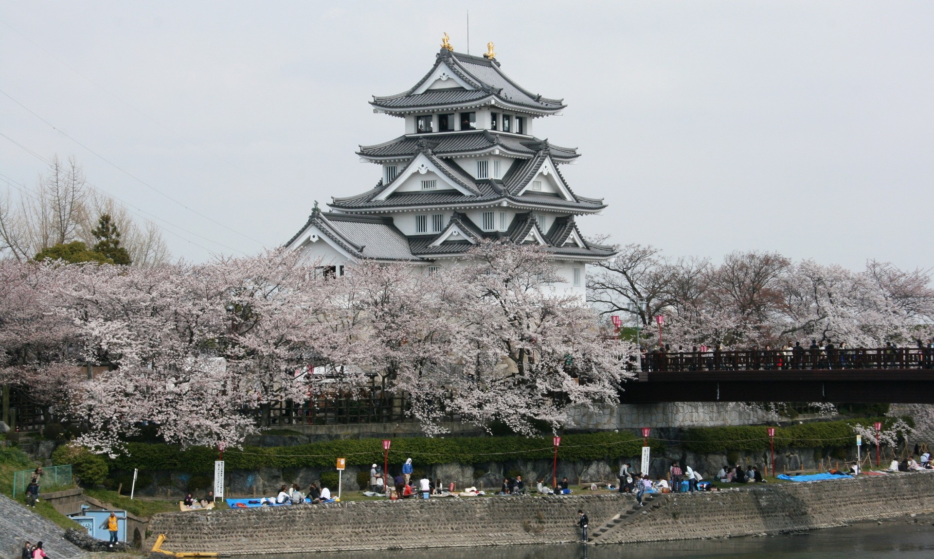 Sunomata Castle and Cherry blossom in Gifu prefecture, Japan.